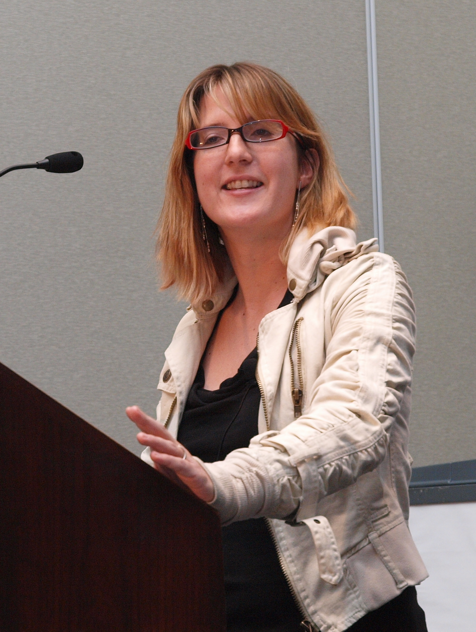 Kellee Santiago at the Game Developers Conference in 2010 (first day), speaking at "Leadership: a 21st century skill".